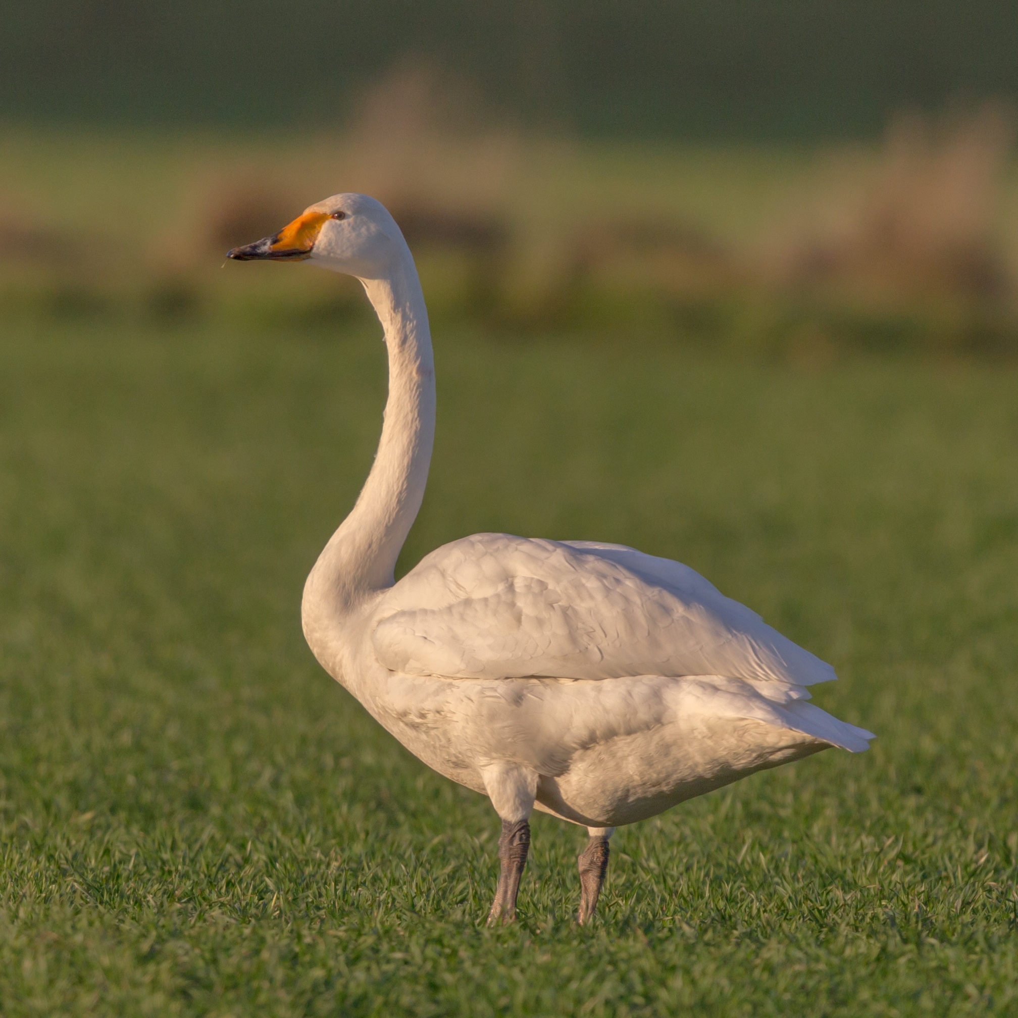 Whooper Swans, male